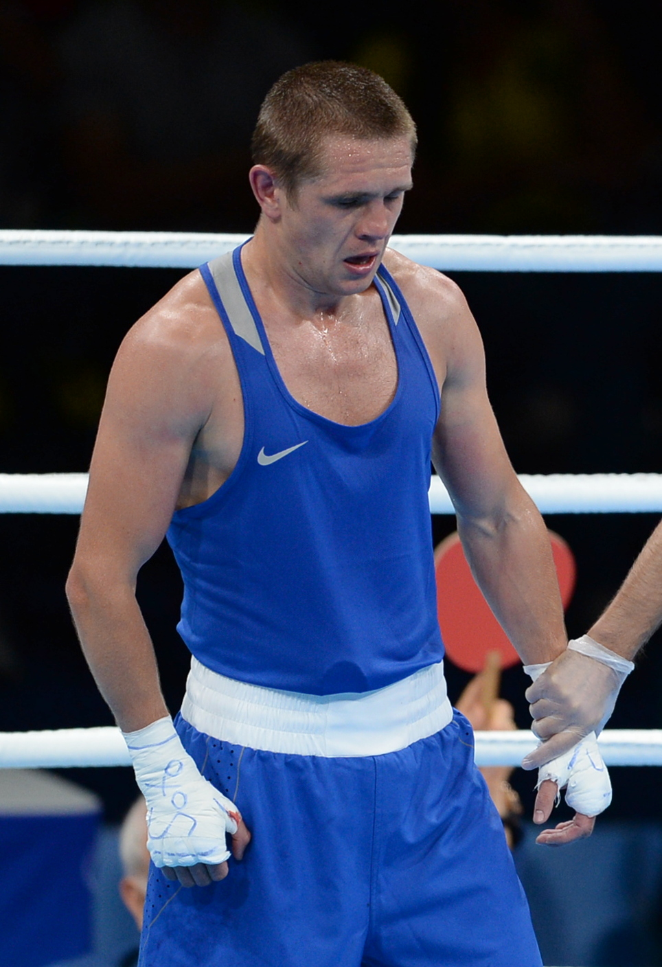 Boxing at the 2016 Summer Olympics, Sotomayor vs Matviychuk